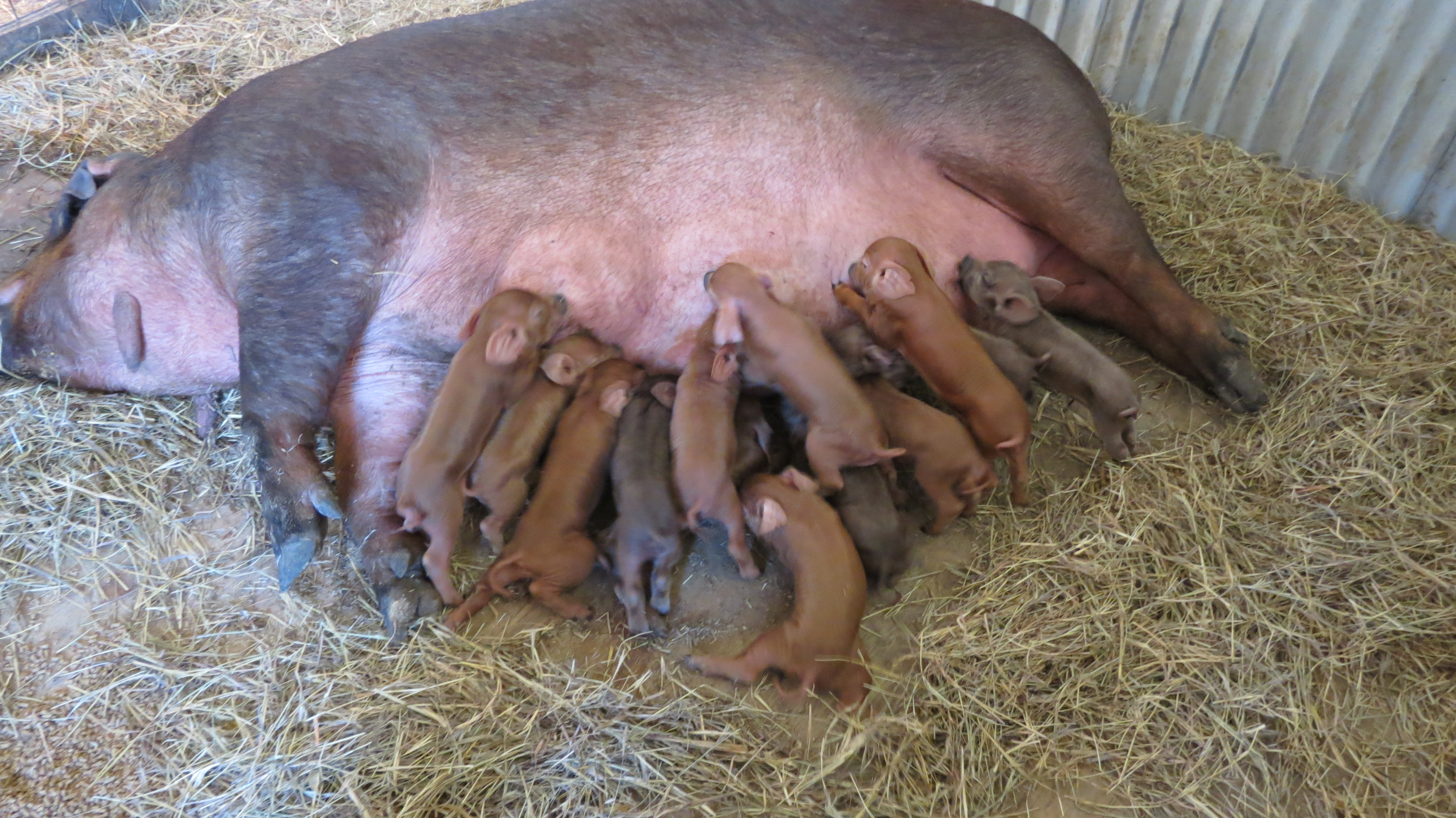 This sow is 1-1/2 years old in this picture, and this is her second litter. The entire litter of 13 was born alive and totaled 42-1/4 pounds.